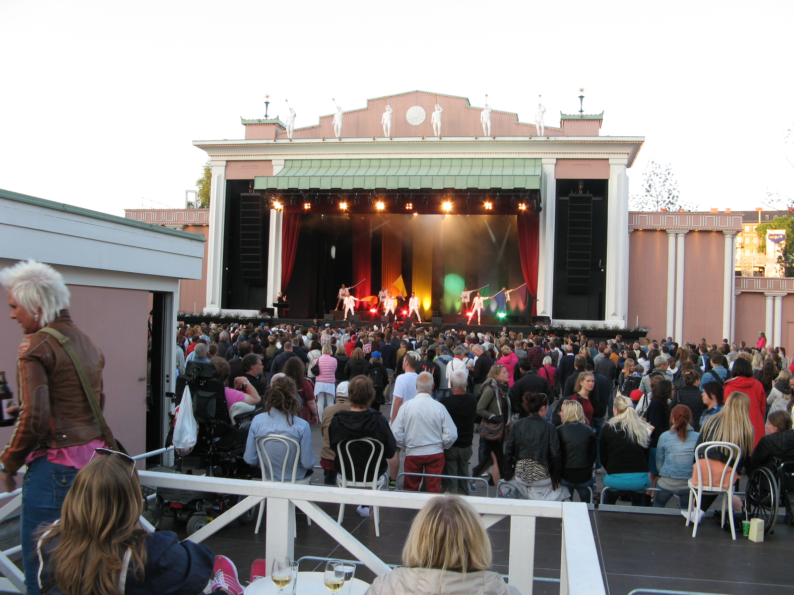 West Pride Gothenburg 2014